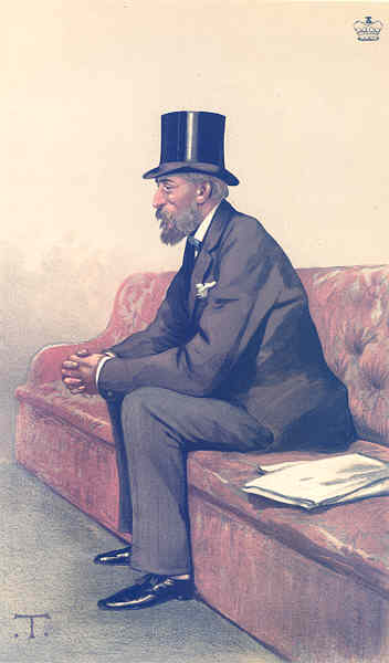 Caricature of Ivor Guest, 1st Baron Wimborne. Caption read "Tennis".